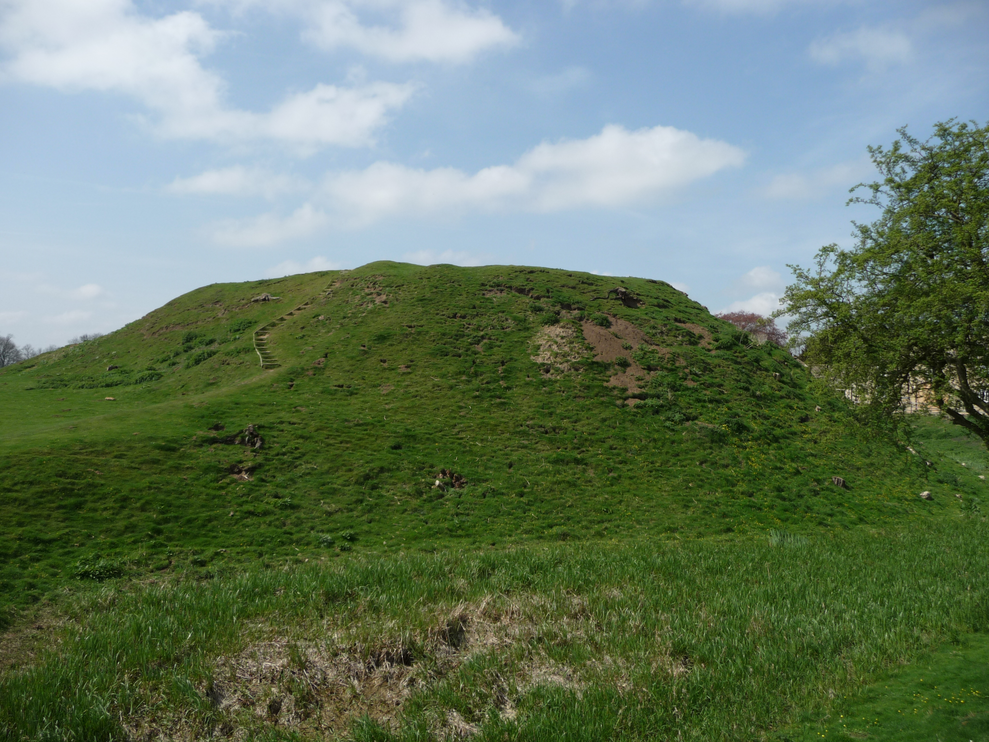 This mound is all that remains of Fotheringhay Castle. Mary Queen of Scots was imprisoned, and ultimately executed here in 1587.